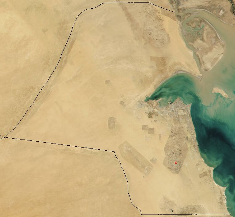 Satellite image of Kuwait in November 2001